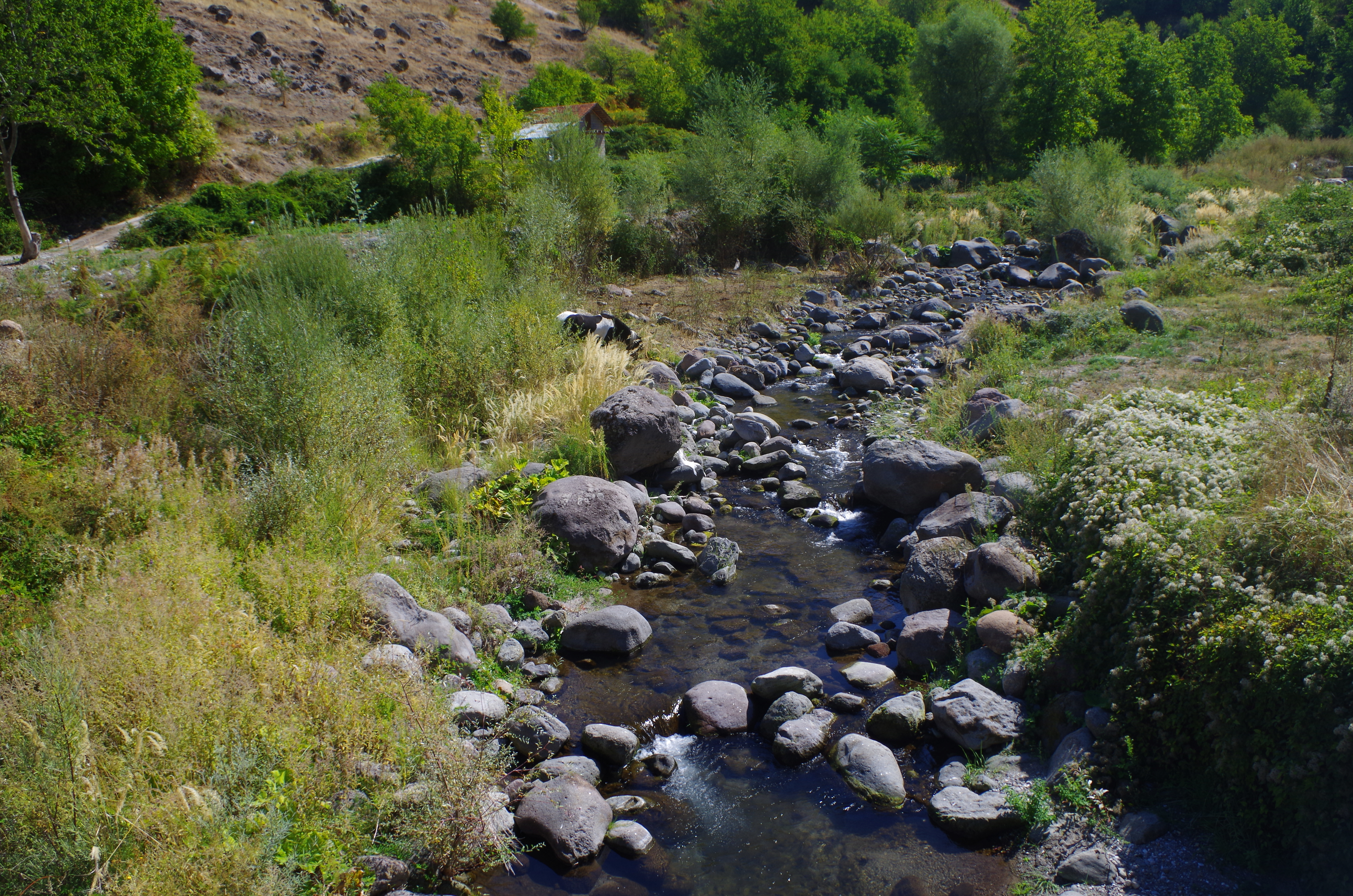 Bošava through the village of Konopište